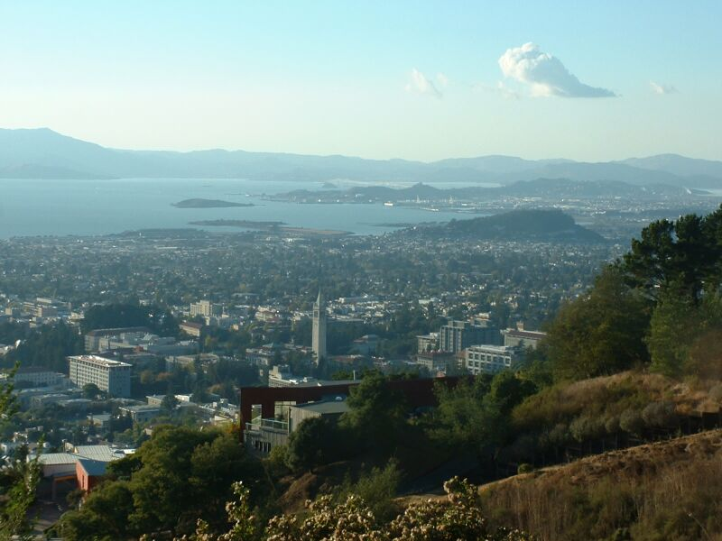 Berkeley, California and the University of California, Berkeley as seen from Claremont Canyon Regional Preserve - larger version Photograph taken 1st November 2003 by Stephen Lea en:, Berkeley Category:Images of California